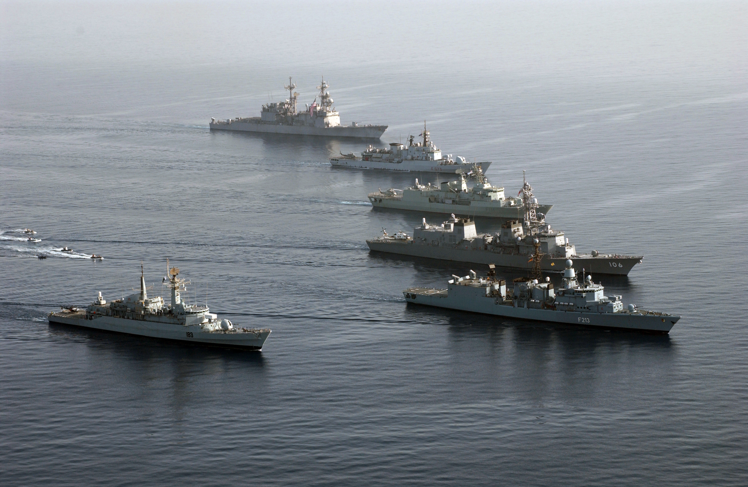 Gulf of Oman (May 6, 2004) - Six ships and four Rigid Hull Inflatable Boats (RHIB) assigned to Combined Task Force One Five Zero (CTF-150) assemble in a formation for a photo exercise. The multinational Combined Task Force One Five Zero (CTF-150) was established to monitor, inspect, board, and stop suspect shipping to pursue the war on terrorism and includes operations currently taking place in the North Arabia Sea to support Operation Iraqi Freedom. Countries contributing to CTF-150 currently include Australia, Canada, France, Germany, Italy, Pakistan, New Zealand, Spain, United Kingdom and the United States. U.S. Navy photo by Photographer's Mate 1st Class Bart Bauer. (RELEASED)